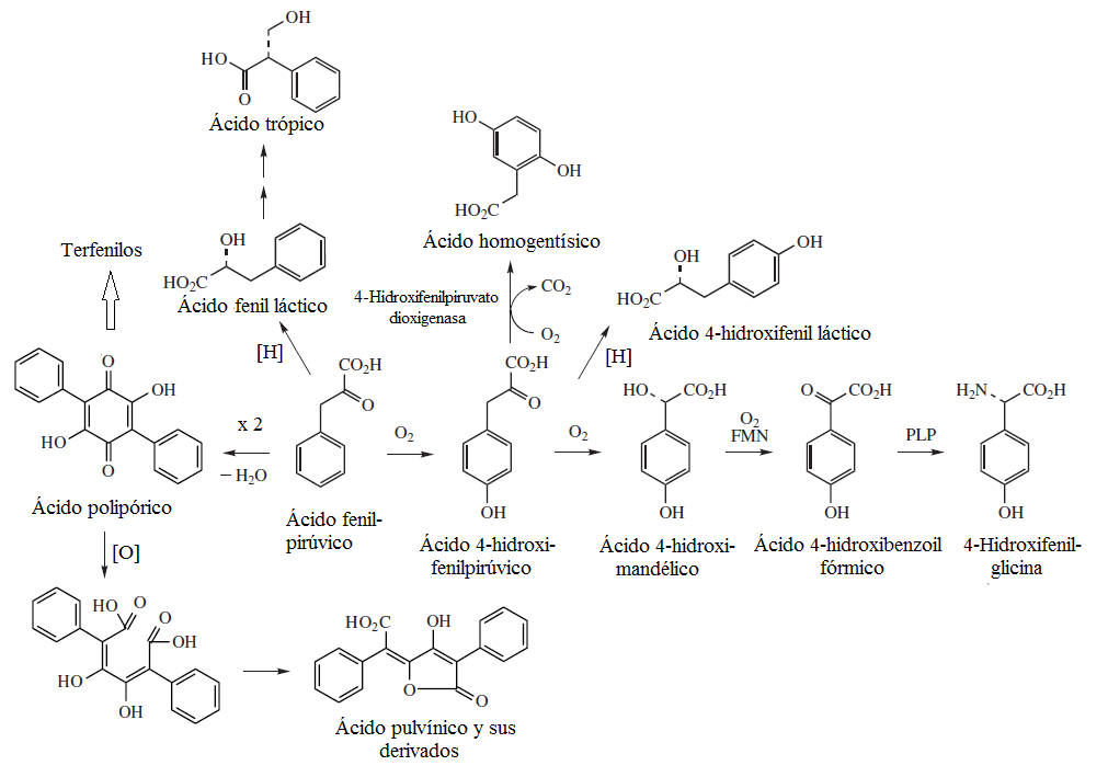 Arylpyruvates pathways scheme